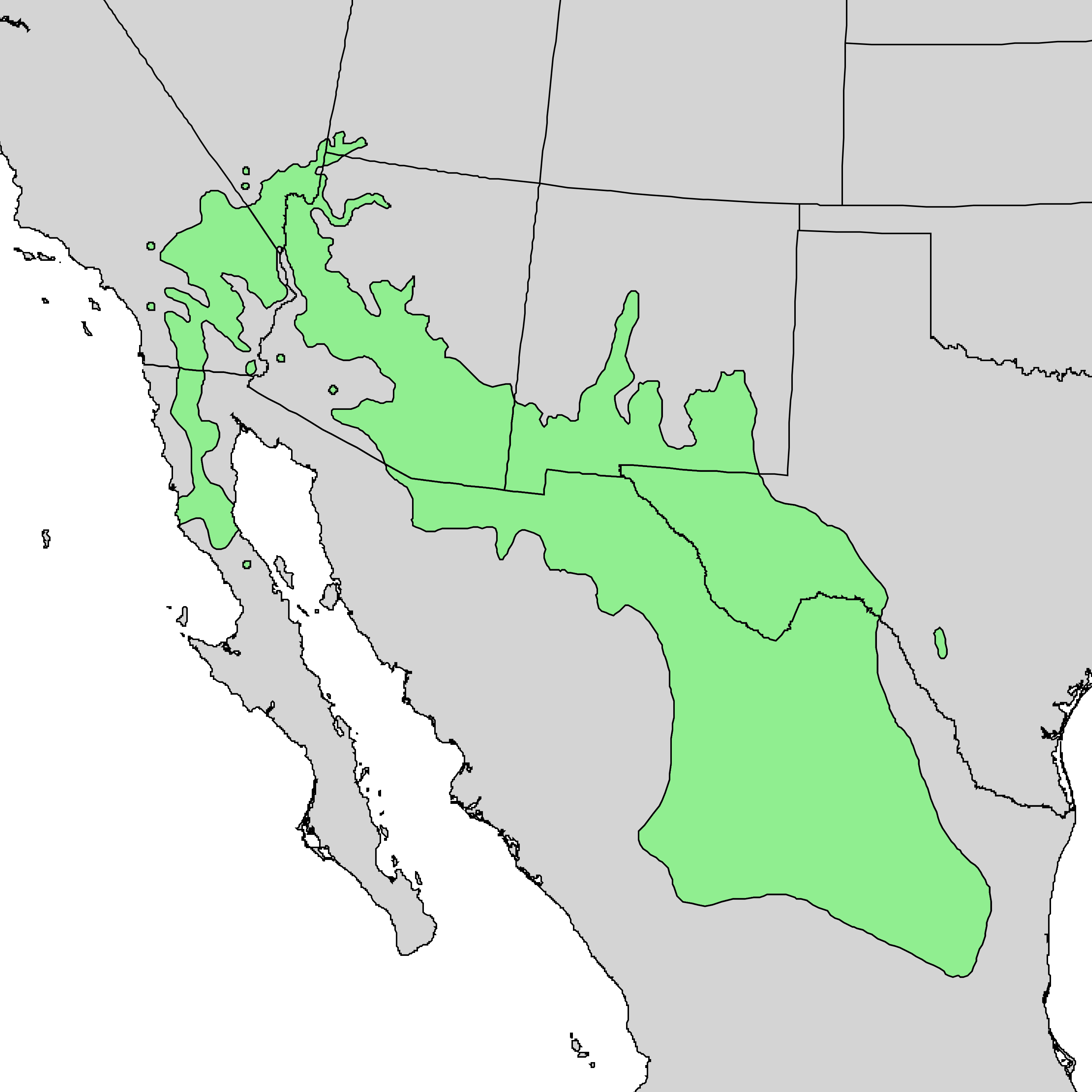 Natural distribution map for Chilopsis linearis (desert willow)